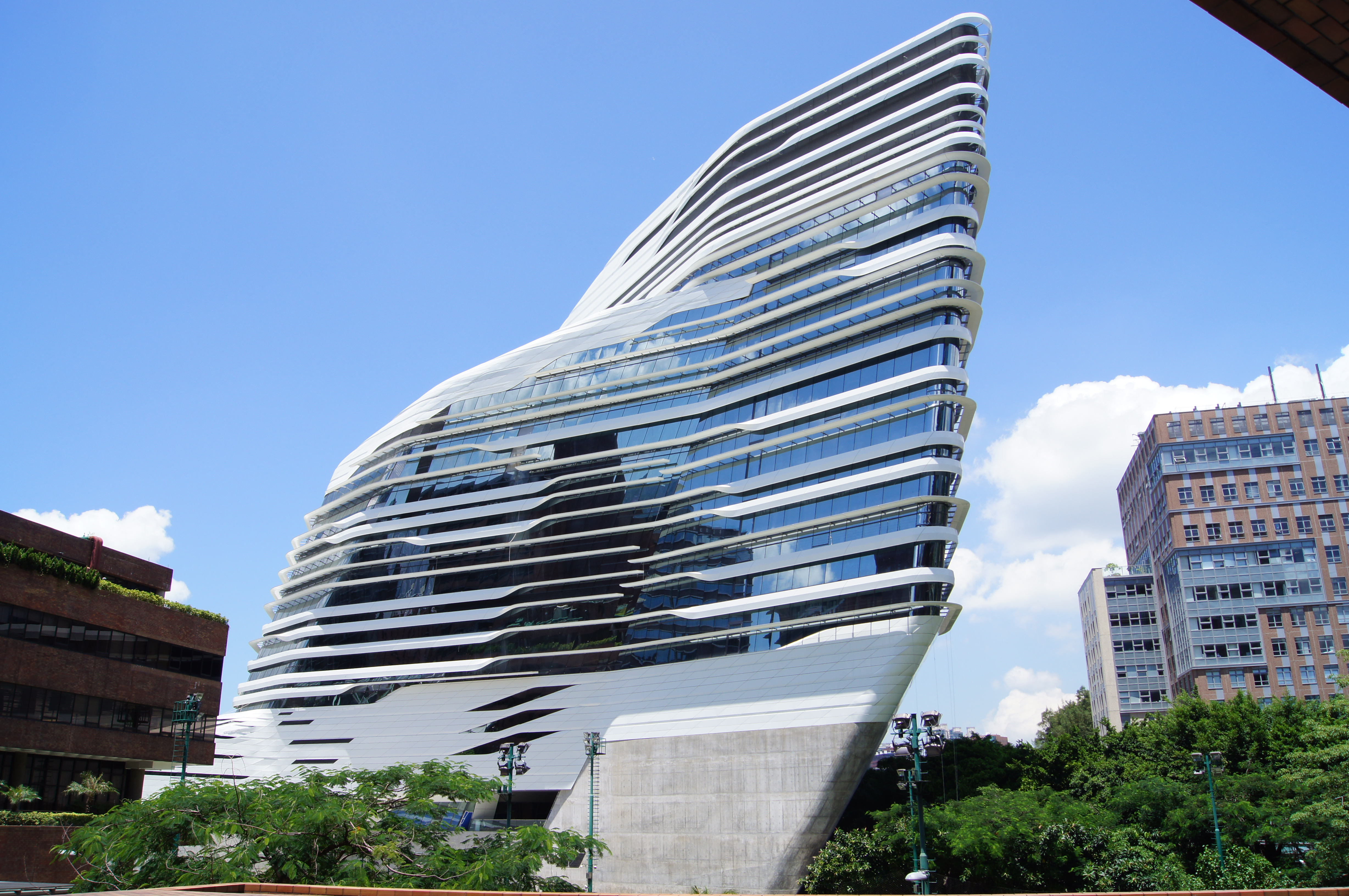 Wikimania 2013 venue